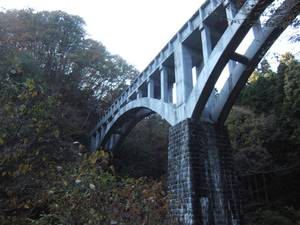 Hananuki River 1st power station 3rd aqueduct, near Hananuki Dam. Takahagi, Ibaraki, Japan.